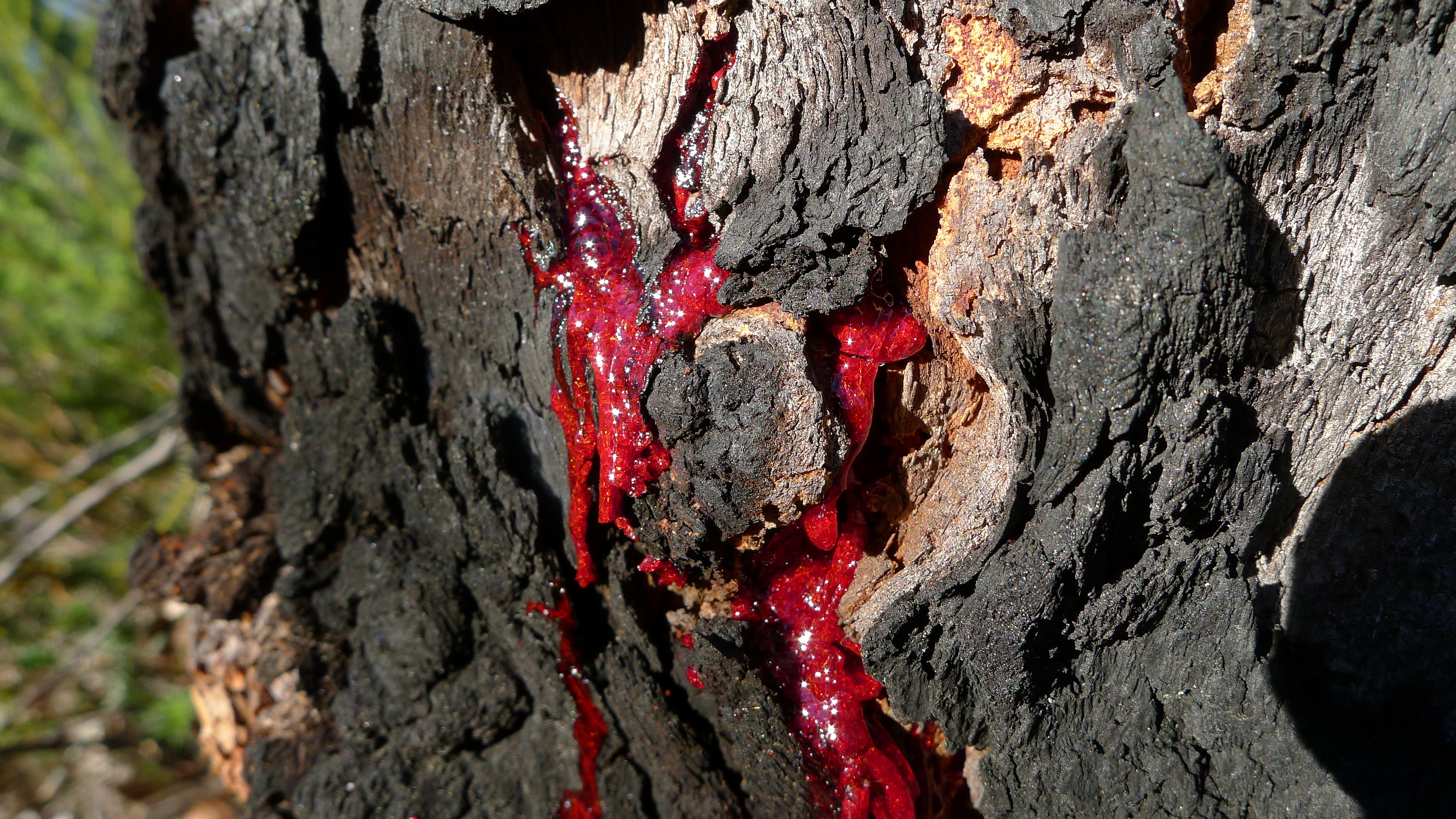 Red Bloodwood, Corymbia gummifera, bleeding bright red blood. Royal National Park, NSW Australia, May 2013.